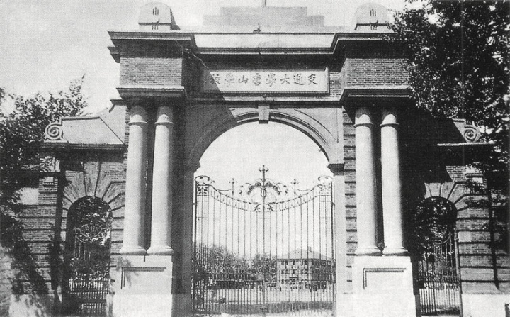 交通大学唐山学校